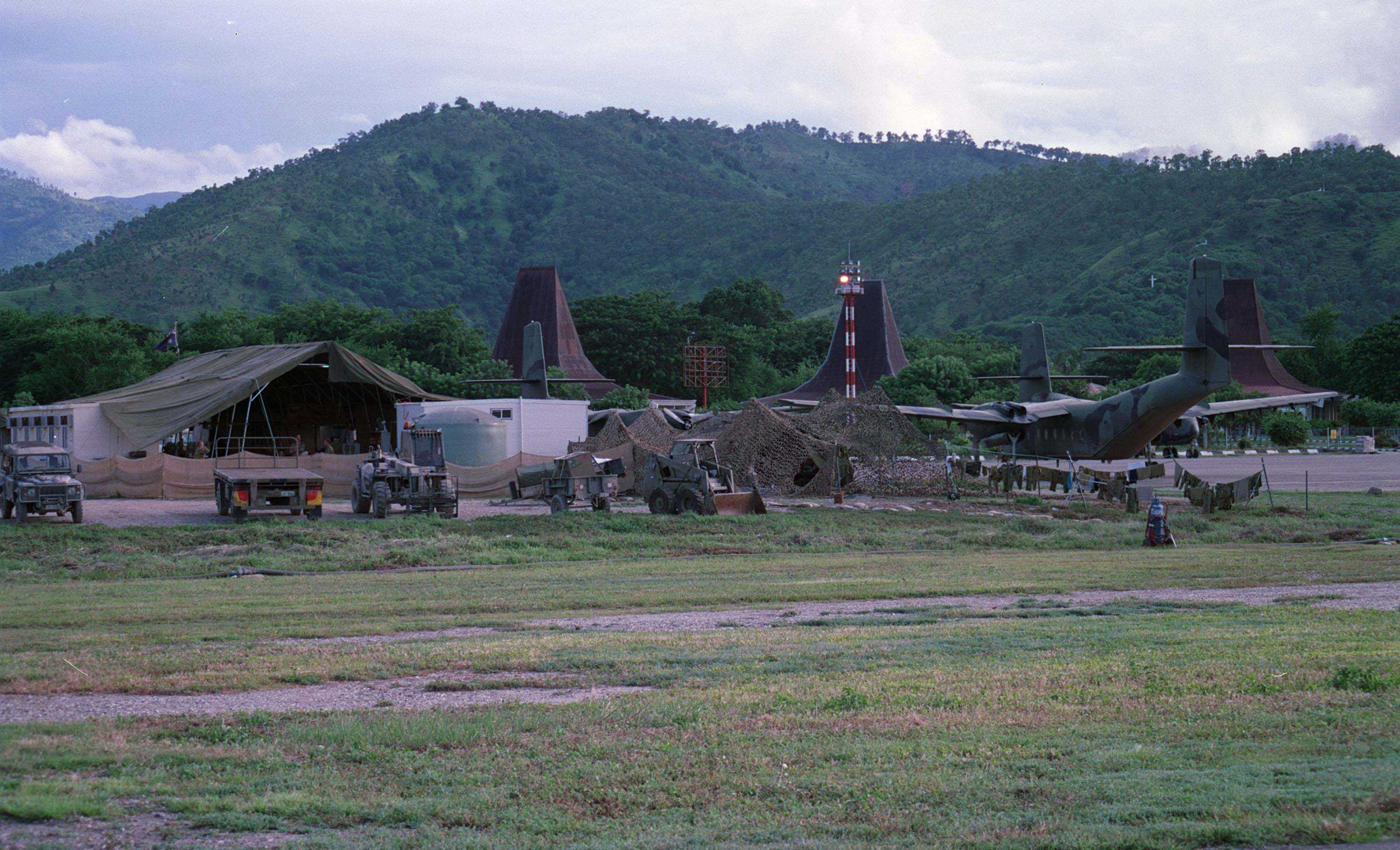 USS Blue Ridge (LCC-19), 10 February 2000, Dili, East Timor--Photos from ground of an Australian controlled air base in Dili East Timor